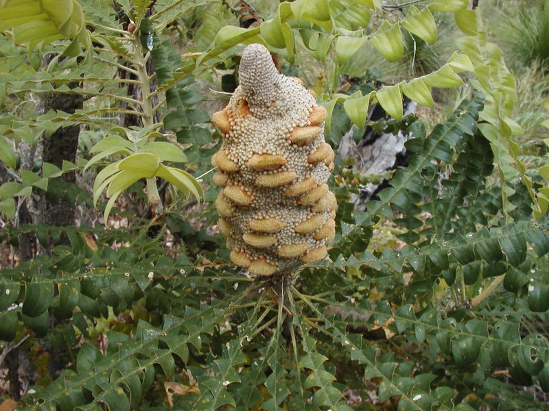 Banksia grandis, highlighting young follicles developing and foliage. Photo taken Margaret River area Dec 2004 by Cas Liber